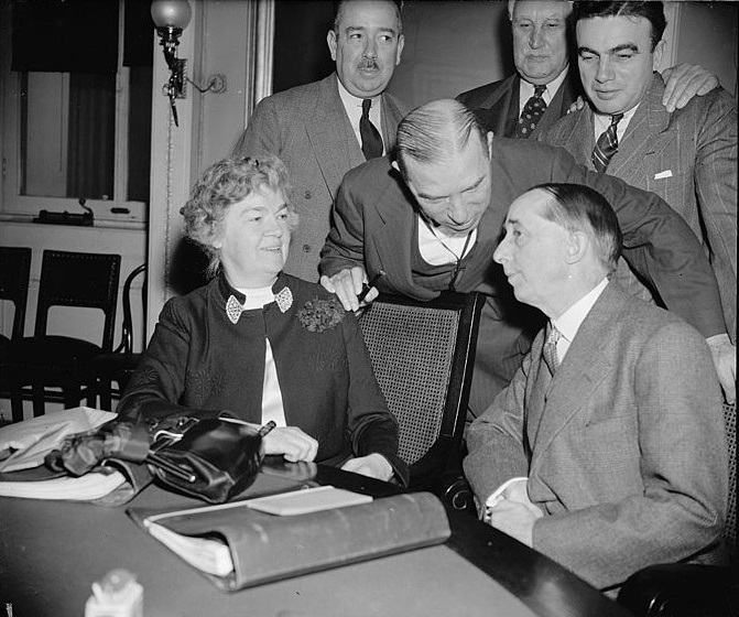 Off-the-record report on Spain. Washington, D.C., March 30. A dark secret was the report American Ambassador to Spain, Claude Bowers gave to the House Foreign Affairs Committee today on the possibility of Spain becoming a satellite of Germany and Italy. Bowers, right, is pictured with Rep. Sol Bloom. chairman of the Committee, and Rep. Edith Nourse Rogers, republican of Massachusetts.